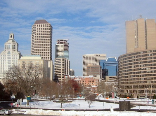 Hartford is a business center known as the insurance capital of the world.Photo taken by Michael Czaczkes